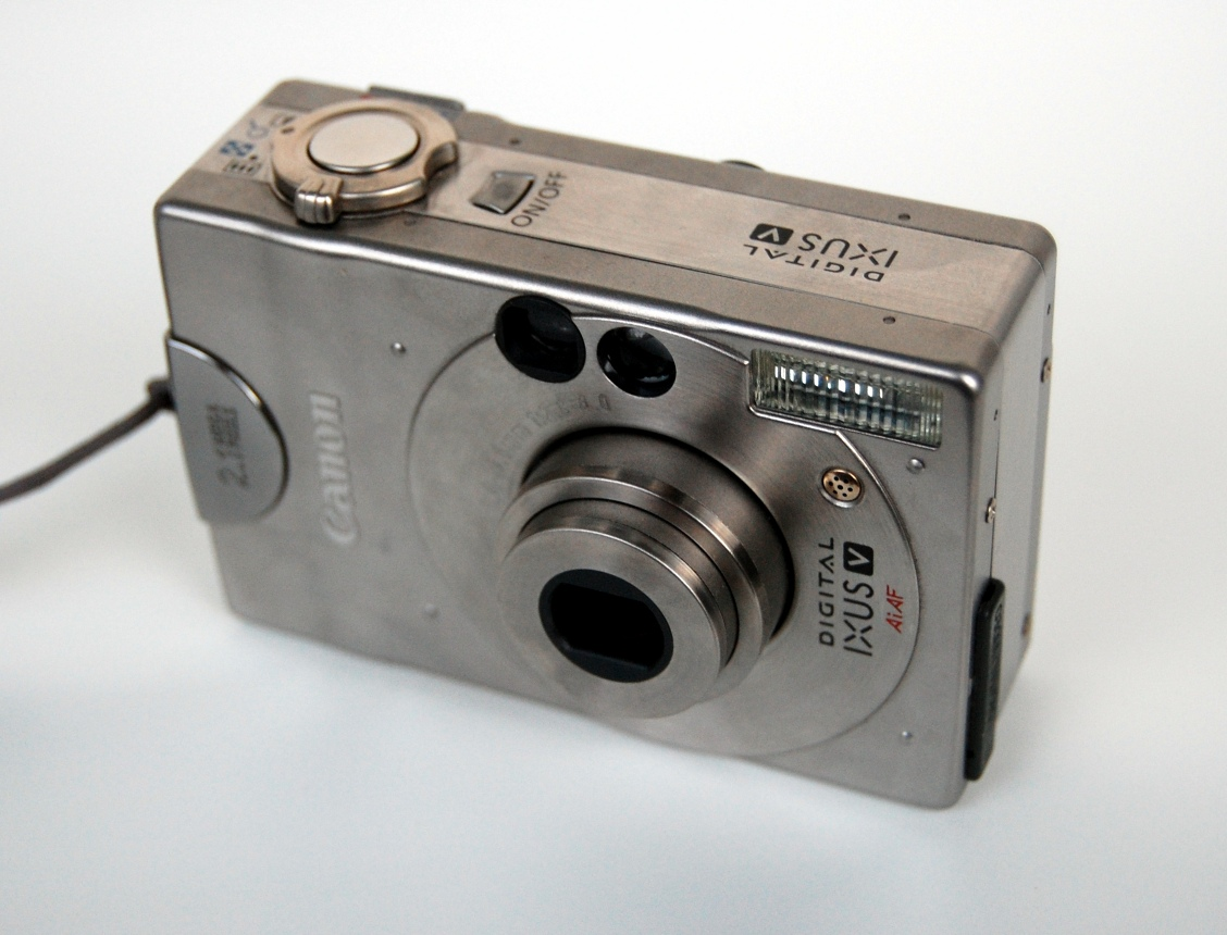 Canon Digital IXUS v